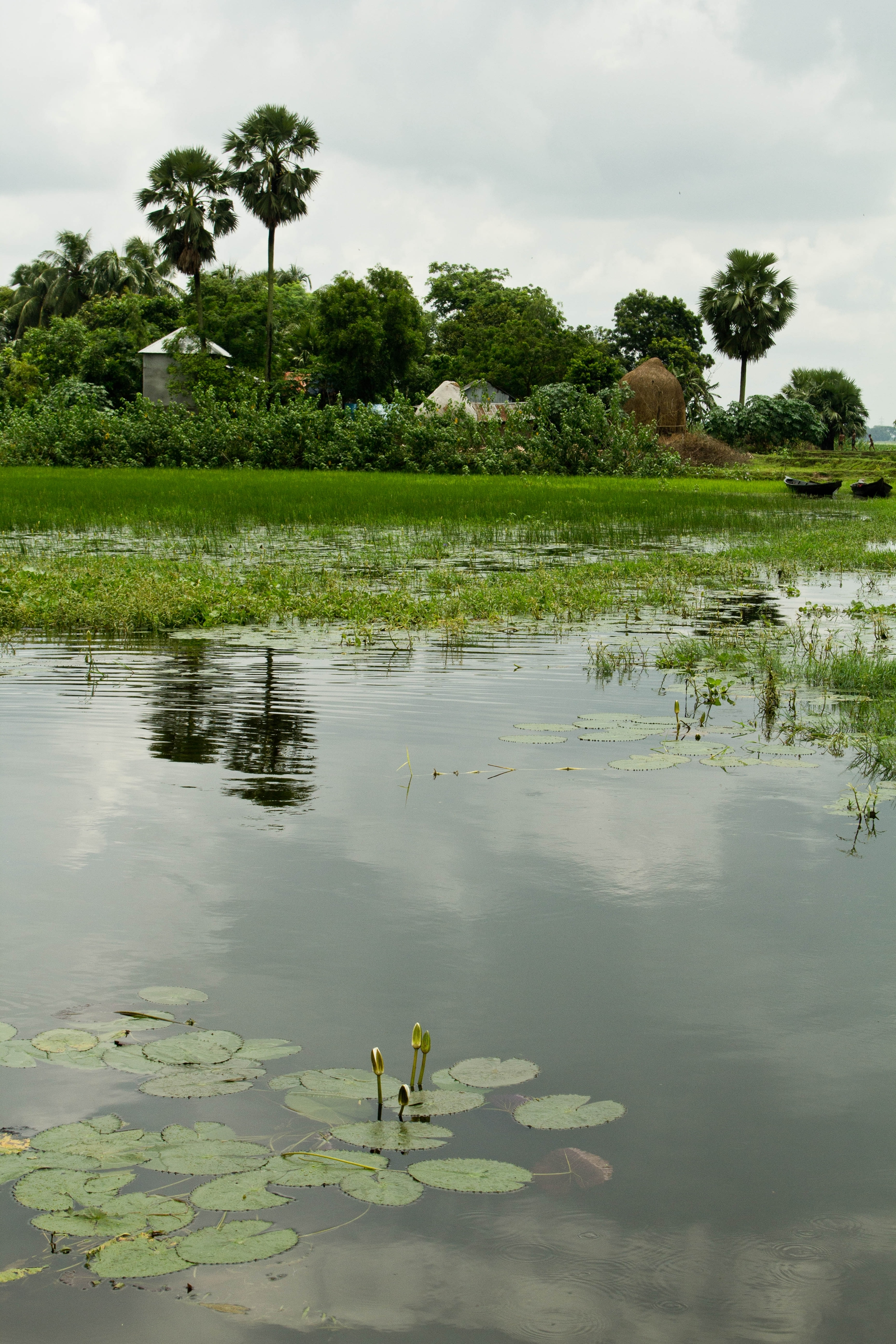 Belai Beel